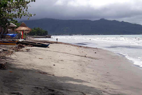 Tukuran Beach